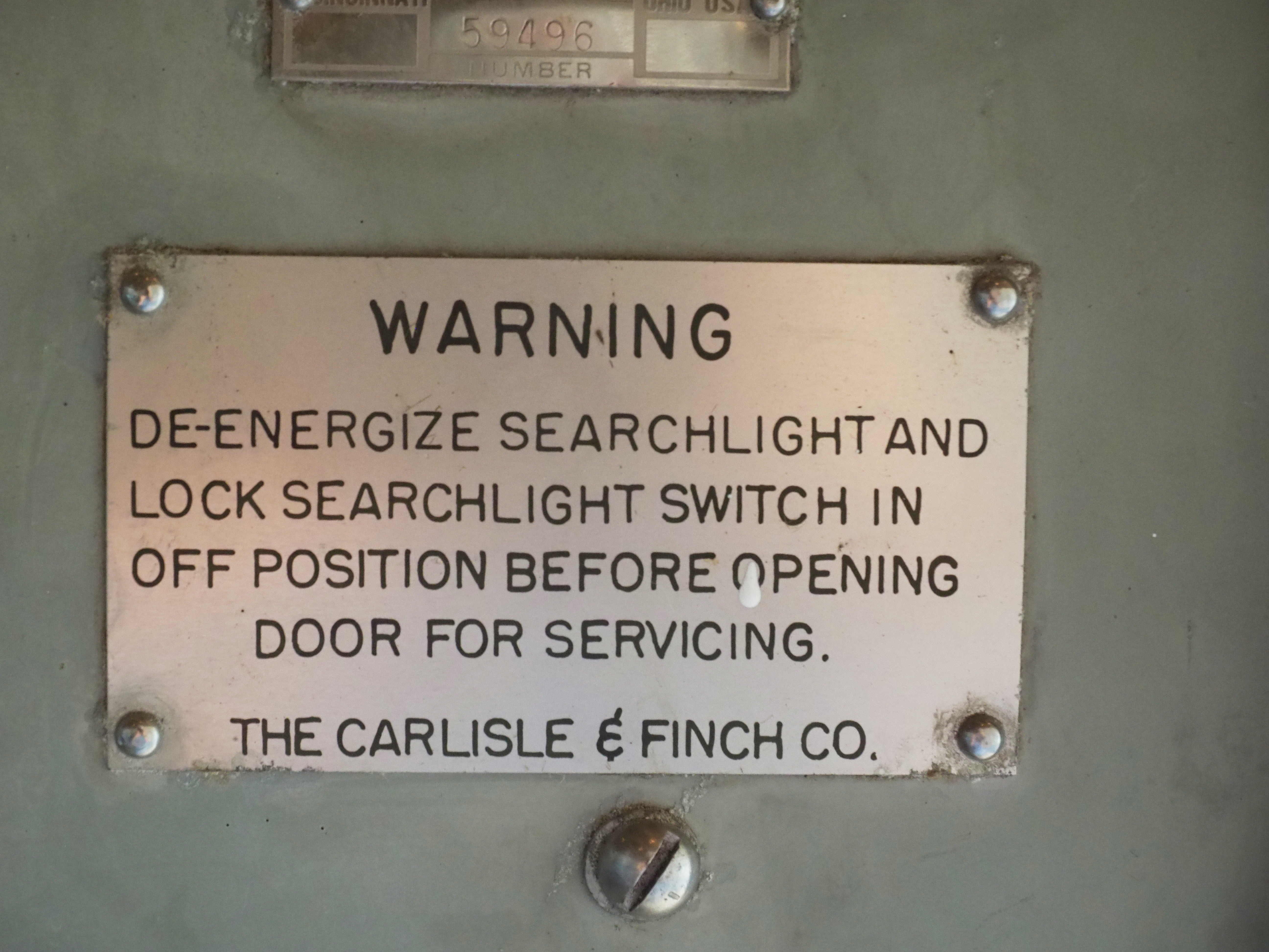 Warning plate attached to marine beacon found on display at the Beavertail Light museum ( in Jamestown, Rhode Island, USA. "Carlisle & Finch marine beacon name plate" is attached to the same light.